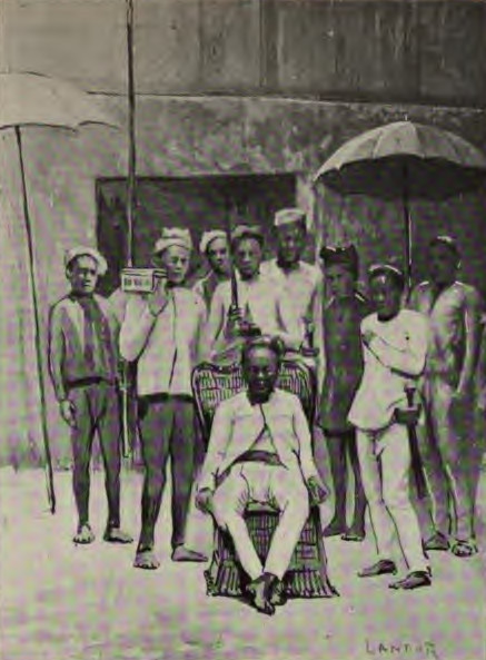 Datu Pyang (Rio, Grande Mindanao)